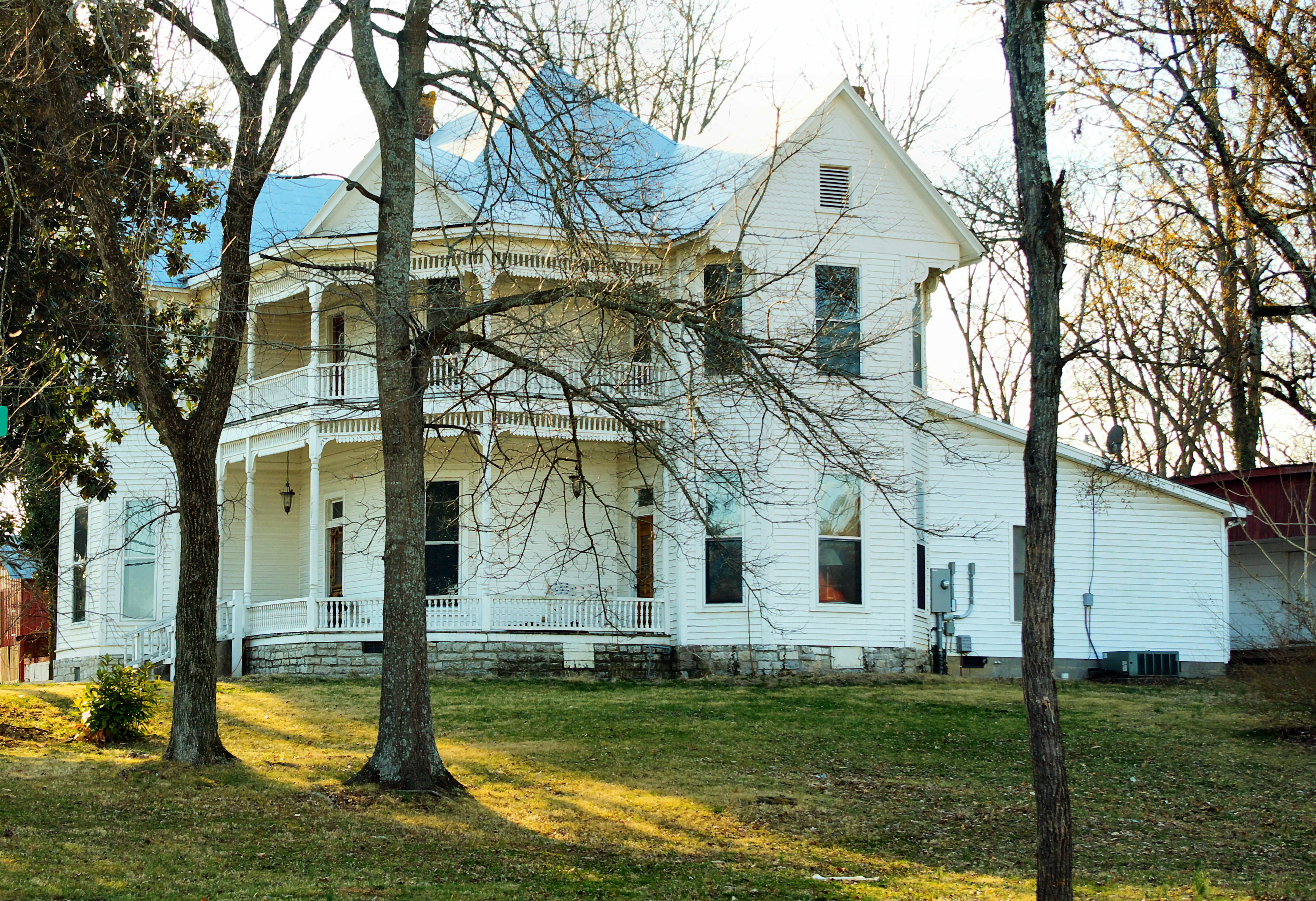 The Brevard House in Woodbury, Tennessee, United States, built 1900.